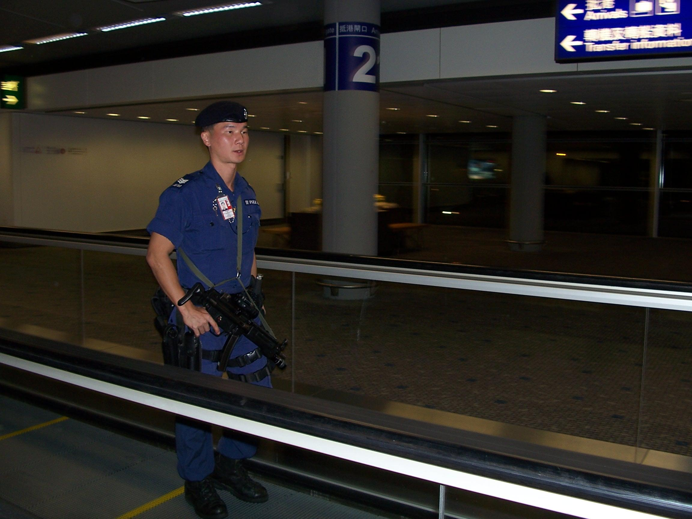 An example of Airport security.